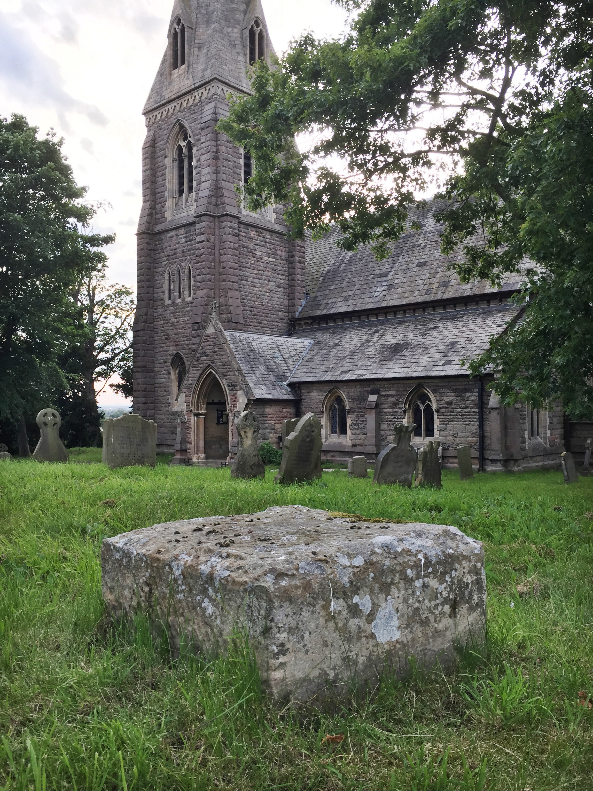 Goodricke family vault on the grounds of Hunsingore Church, Hunsingore, North Yorkshire, England, UK. The astronomer John Goodricke is buried here with other members of his family.